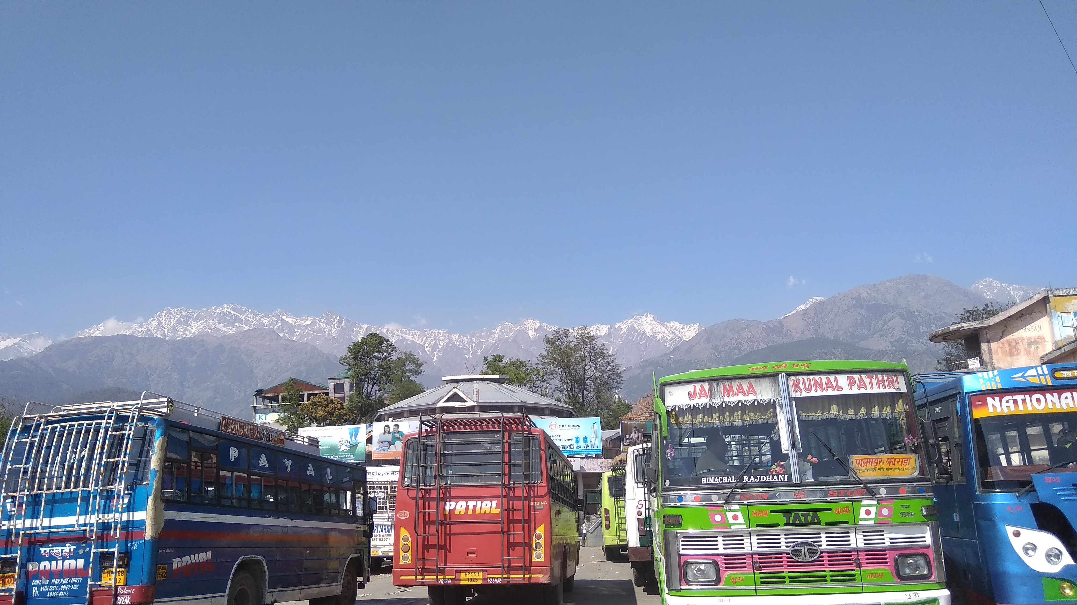 Palampur is a hill station in India’s northern state of Himachal Pradesh.